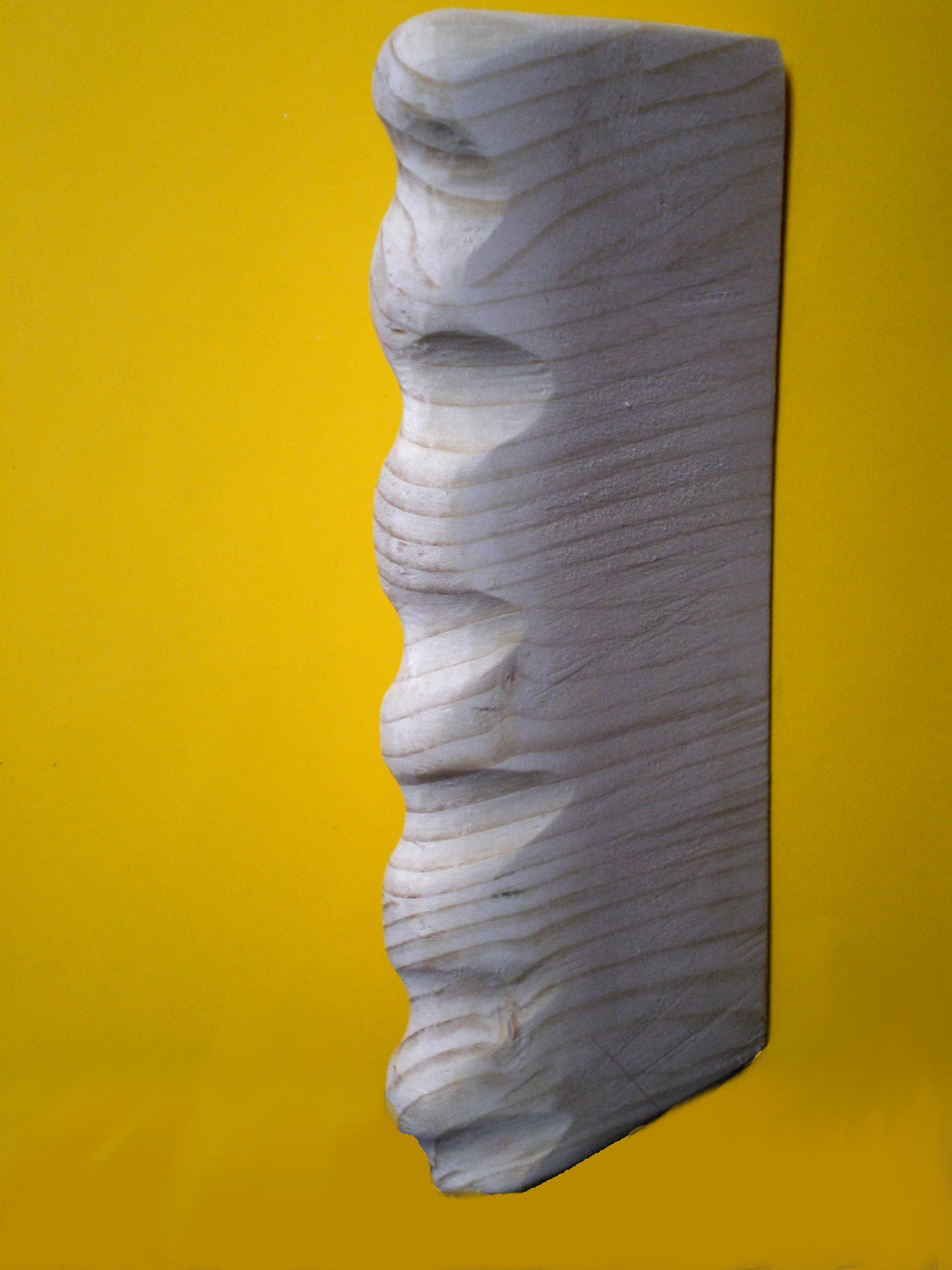 This picture shows a model of a Humpback whale flipper with tubercles. They improve fluid flow over the flipper's surface.